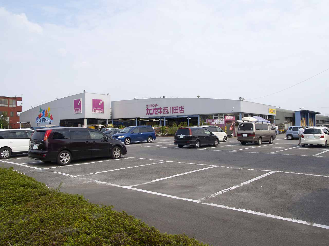 Kanseki, a Home Center in Tochigi prefecture.